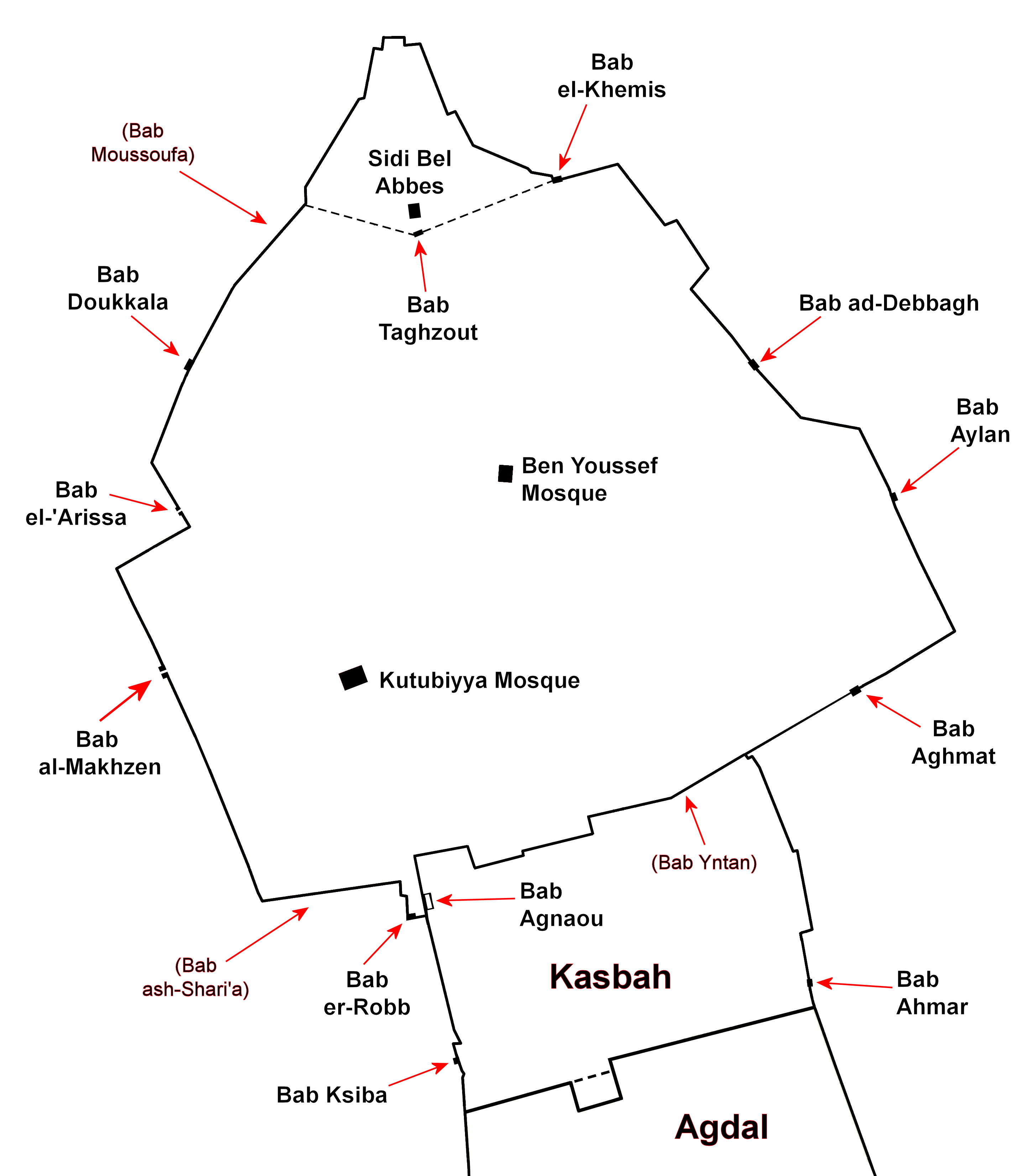 Walls and gates of the medina of Marrakech. Map created by copying outlines from existing maps on the web, using Wilbaux (2001, "La médina de Marrakech") as reference and Google Earth imagery for comparison.